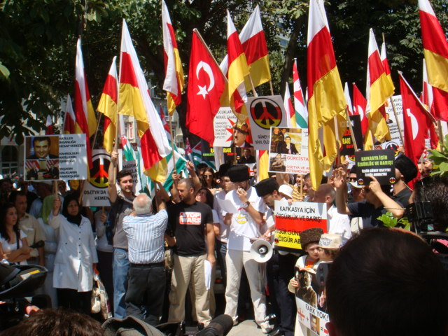 Ossetian, Abkhazian and other North Caucasian diaspora members in Turkey, protesting Georgian Government for its assault against South Ossetia in 8 August 2008. Georgian Consulate, Harbiye, Istanbul. 13 August 2008.